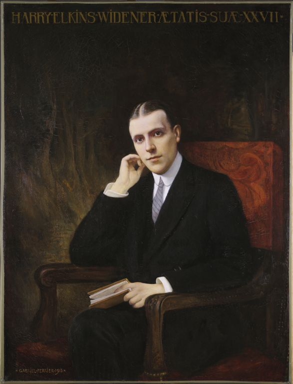 Portrait of Harry Elkins Widener, by artist Gabriel Ferrier, hanging in the Memorial Rooms of Harvard's Harry Elkins Widener Memorial Library